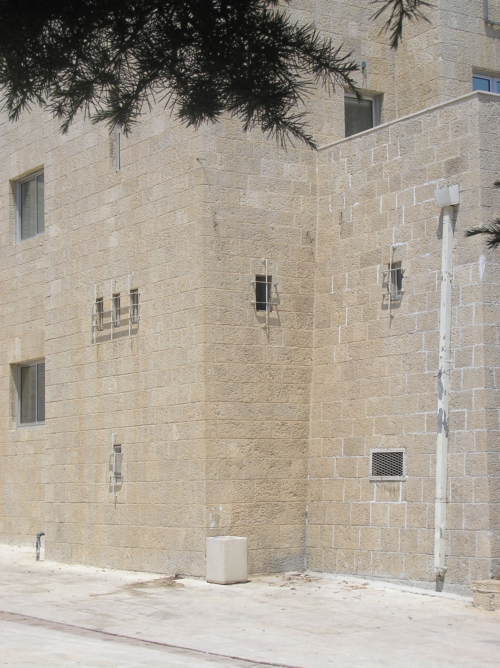 Binyan Hamosadot Haleumiyim - The National Institutions House, Rehavia, Jerusalem